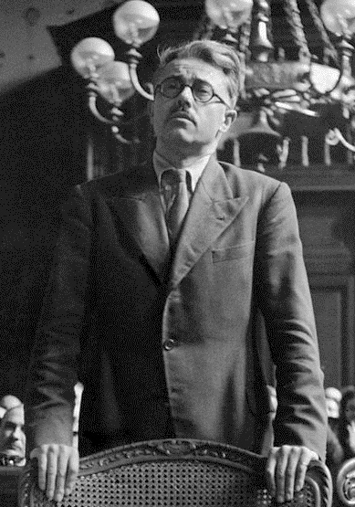 Yves Bouthillier Witness In Petain Trial.